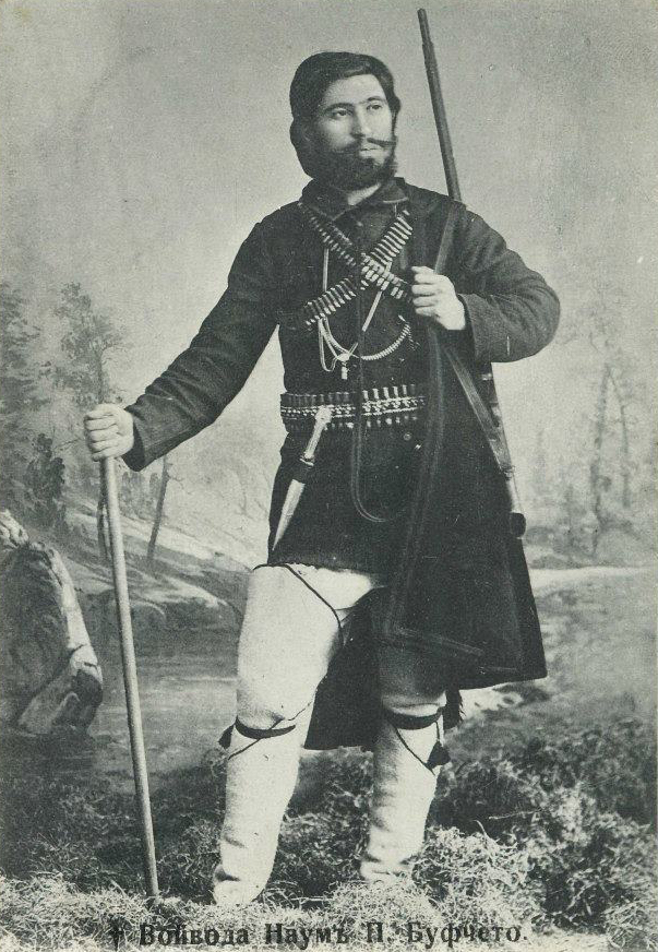 Portrait of Naum Bufcheto